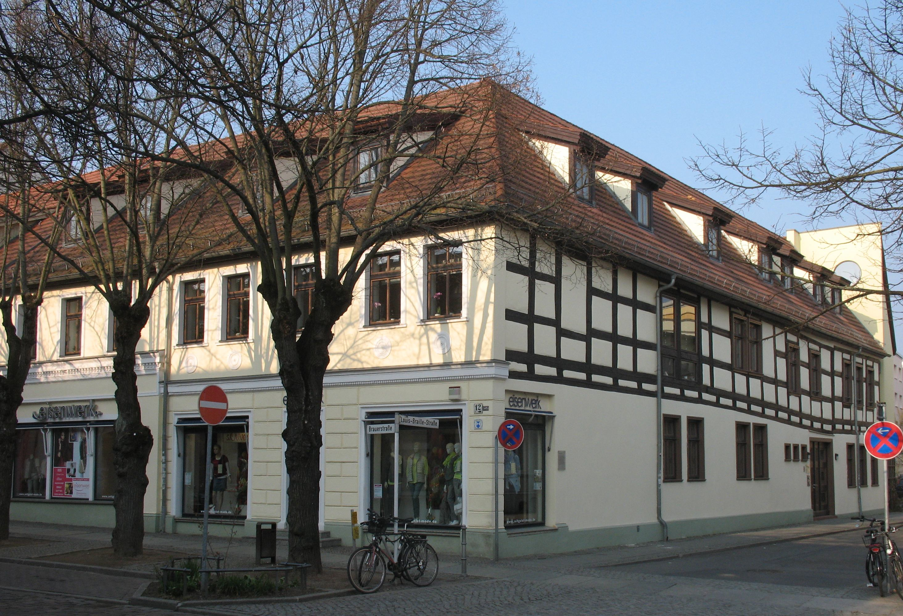 Listed building in Bernau in Brandenburg, Germany